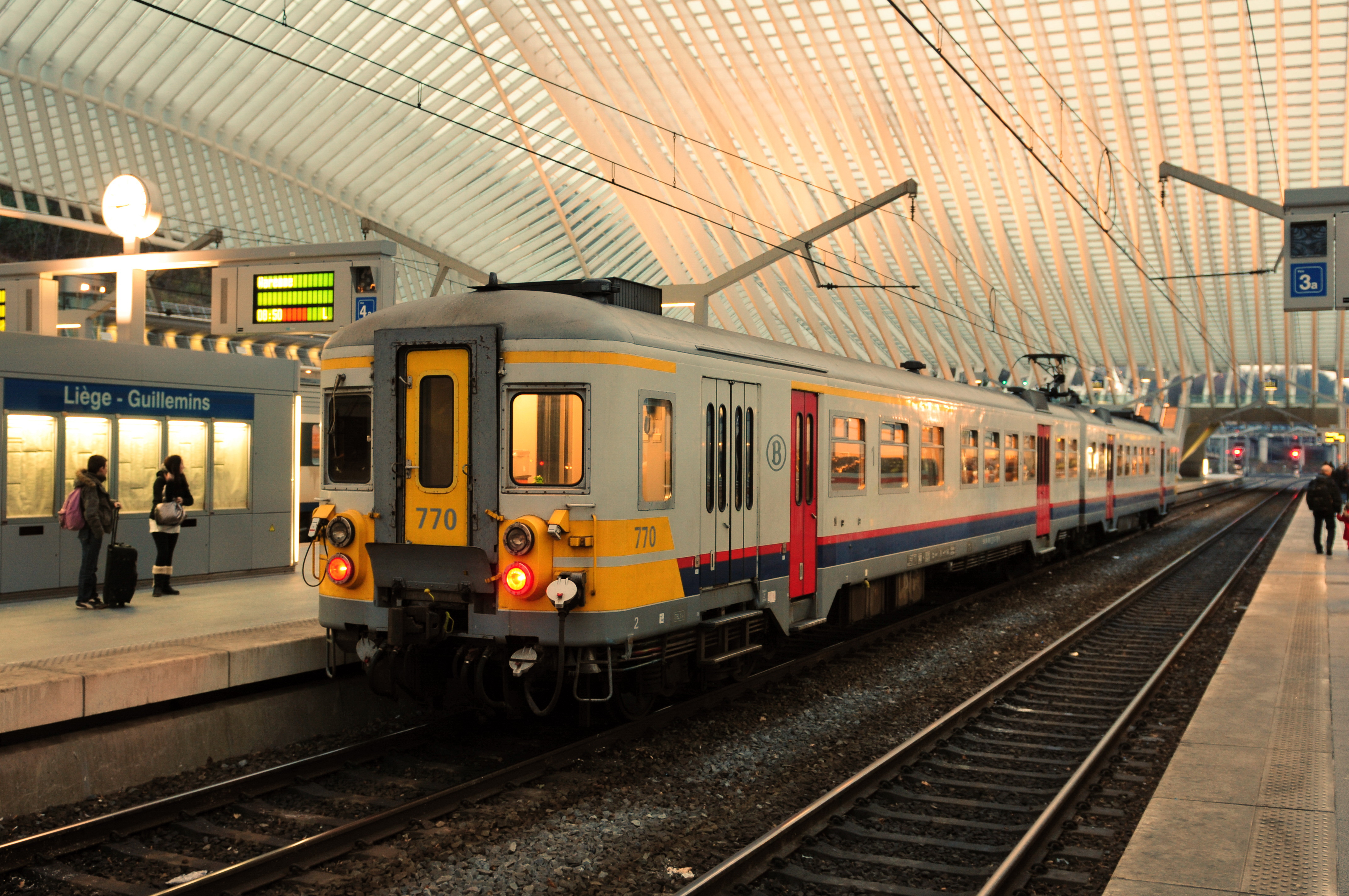 Train in Station Liège-Guillemins (Belgium)